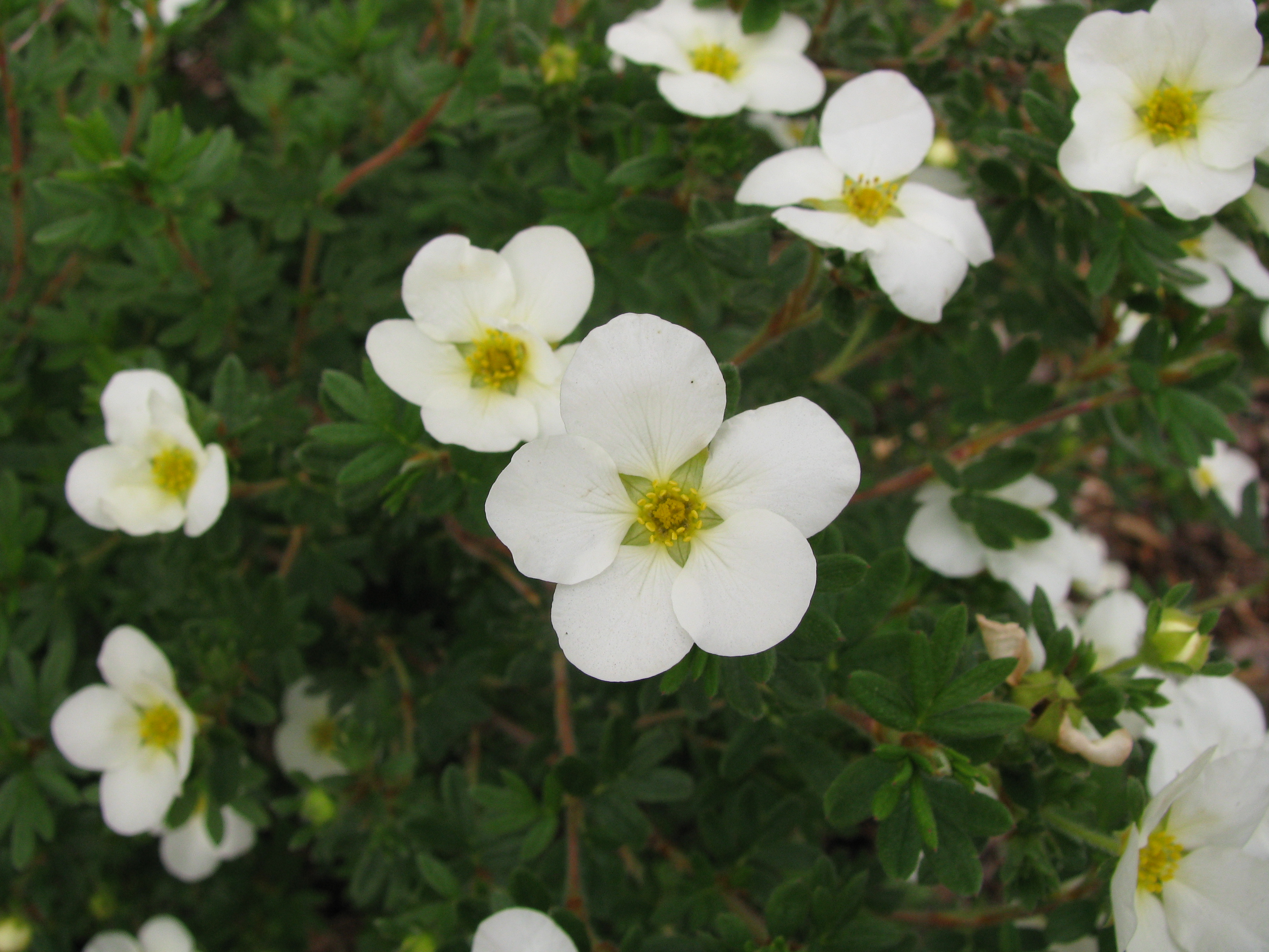 Flowers on a Dasiphora fruticosa en , commonly known as a Shrubby Cinquefoil, cultivar 'Mckay's White', growing in New Hampshire.